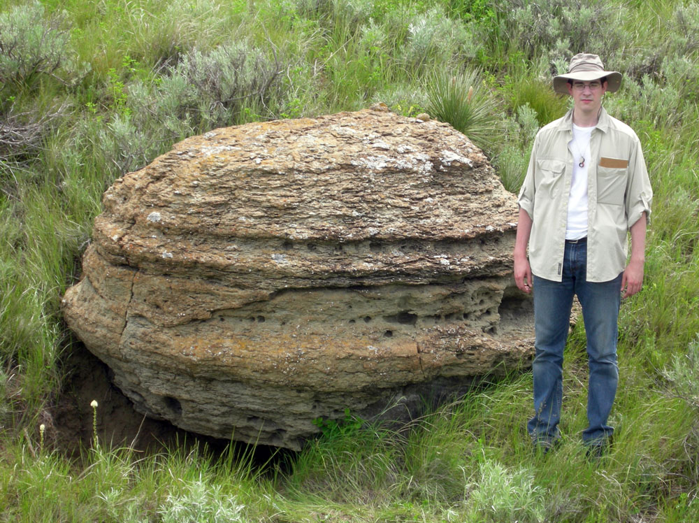 Concretion from the Cretaceous of western South Dakota.